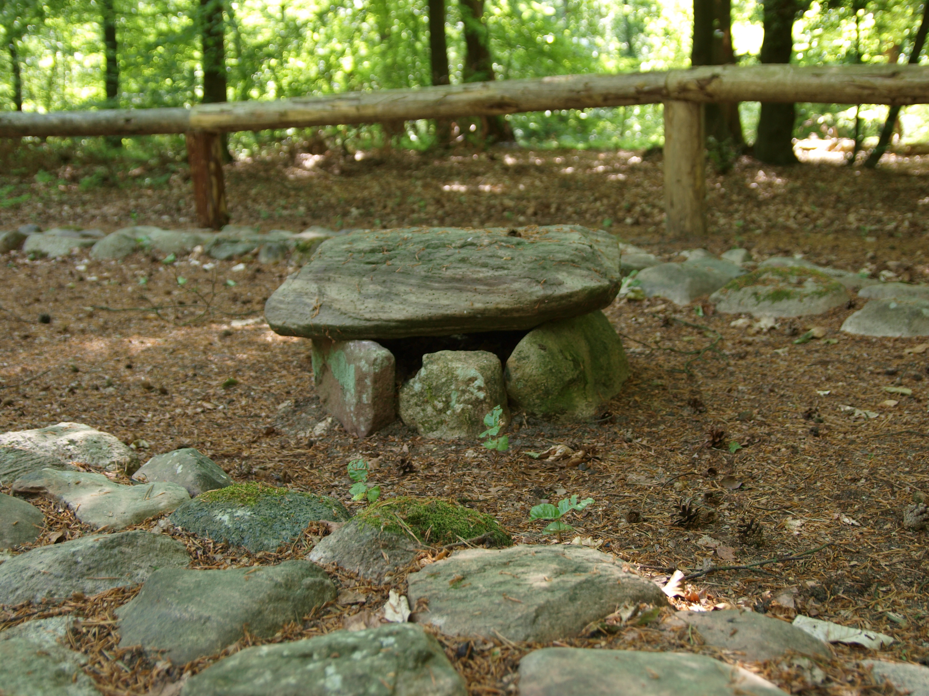 Archaeologic scenic route at Fischbeker Heide, station 8. Reconstructed middle Bronce Age burial attached to an existing older tumulus. Reconstructed Archaeological useum Hamburg | Helms-Museum, Hamburg-Harburg, Germany.